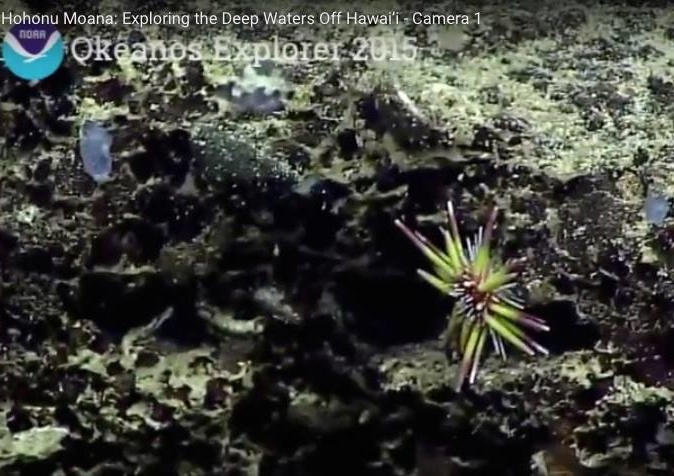 A sea urchin Caenopedina pulchella off Nihau (Hawaii), about 400 m deep.